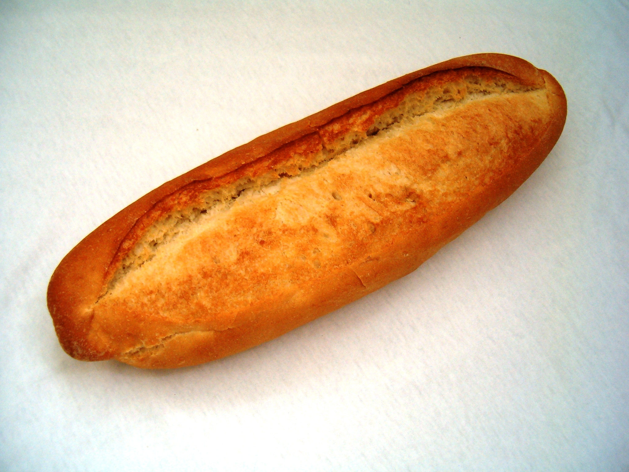 Turkish bread "francala" y no "somun ekmeği" as it is used in TR:WP. "Somun" is "loaf" (round).